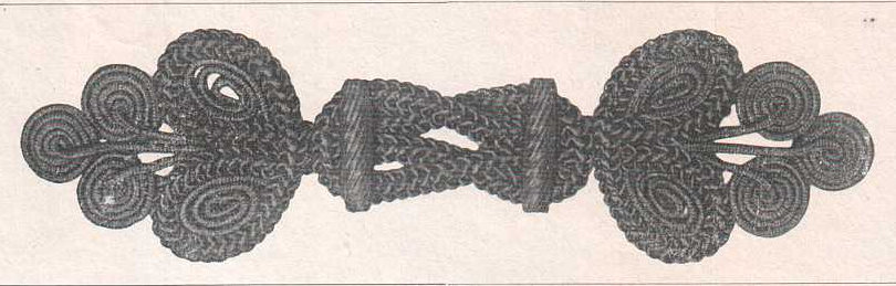 1st to 3rd illustrations show frogs.